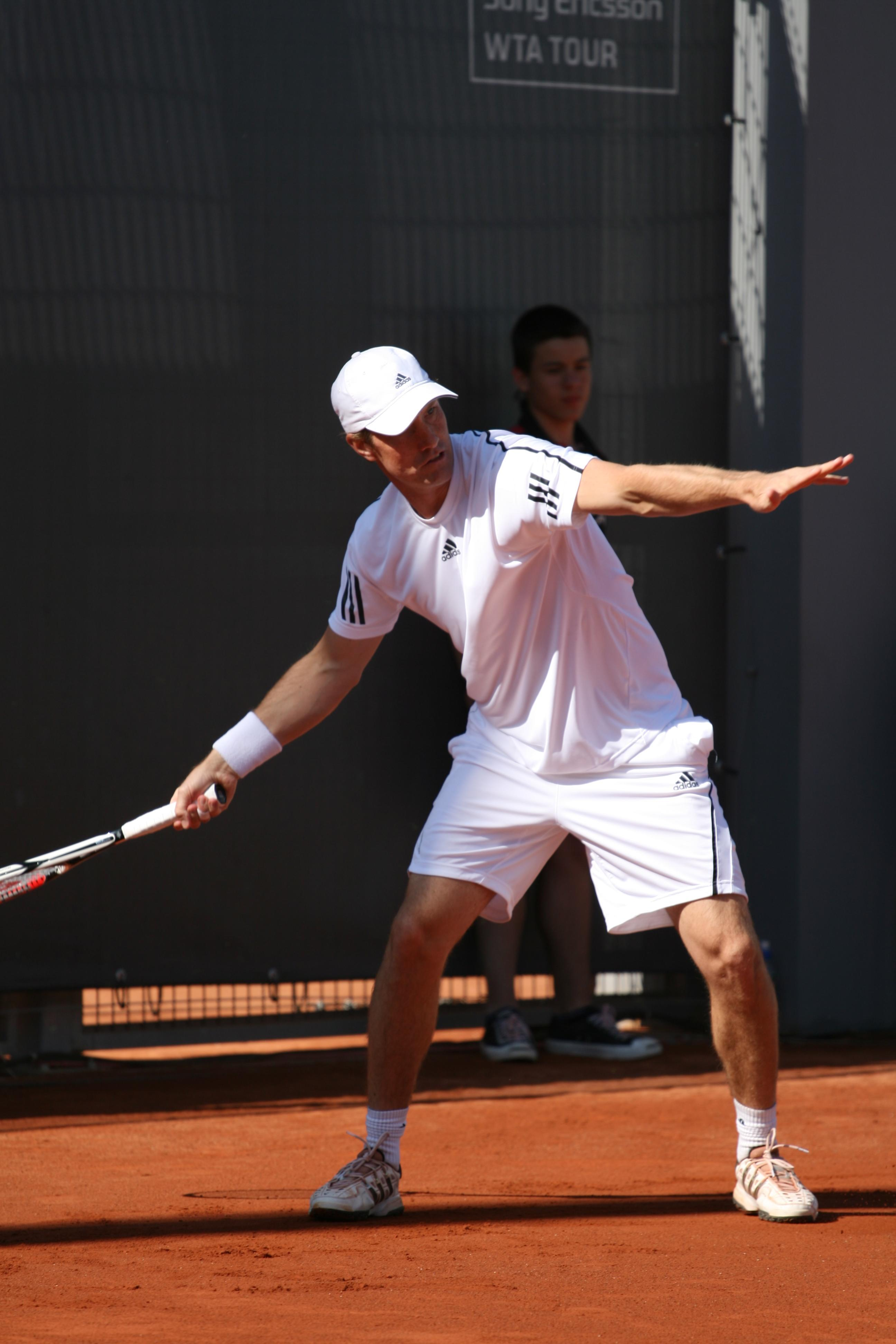 Simon Aspelin and partner Wesley Moodie (unseen) against Bob Bryan and Mike Bryan in the 2009 Mutua Madrileña Madrid Open second round